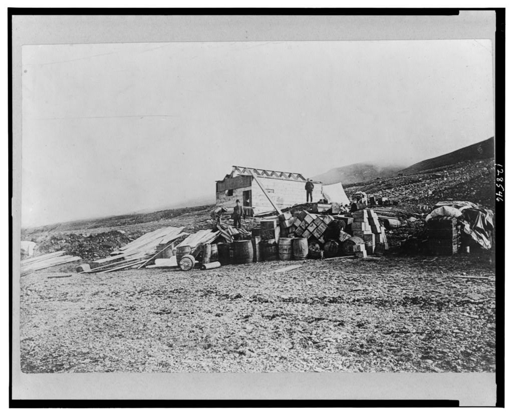 Commander Peary's headquarters in North Greenland, Sept. 1909. Unfinished headquarters with supplies in front.